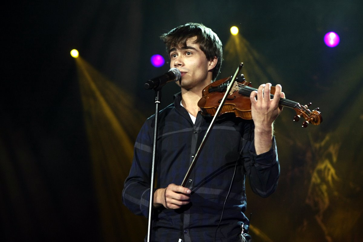 Alexander Rybak, Vilnius, Lithuania. 2009-10-06